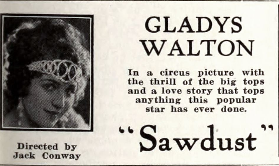 Advertisement for the American drama film Sawdust (1923) with Gladys Walton, on page 33 of the August 4, 1923 Universal Weekly.